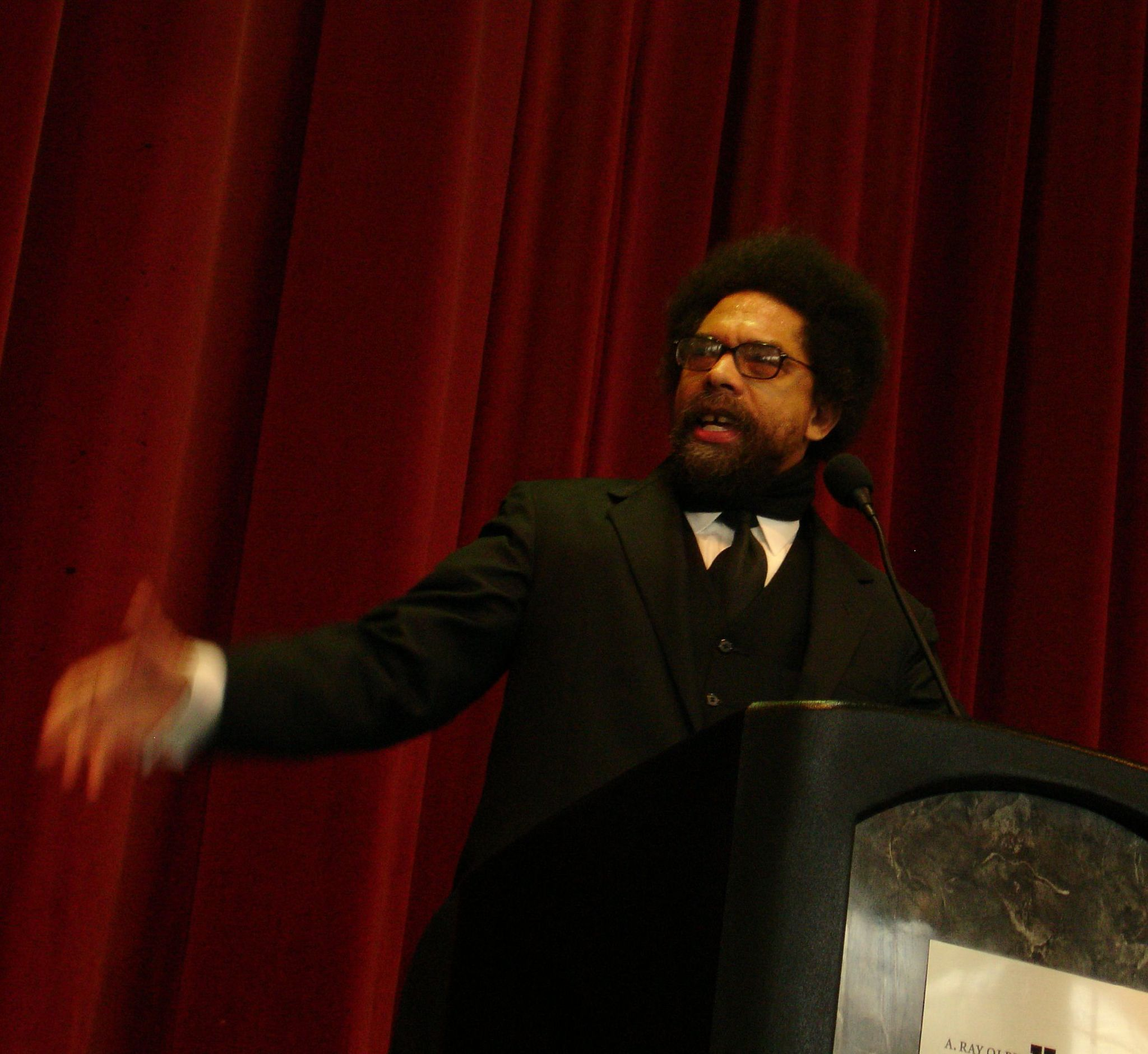 Cornel West, keynote speaker at the Martin Luther King Jr. Week. University of Utah.